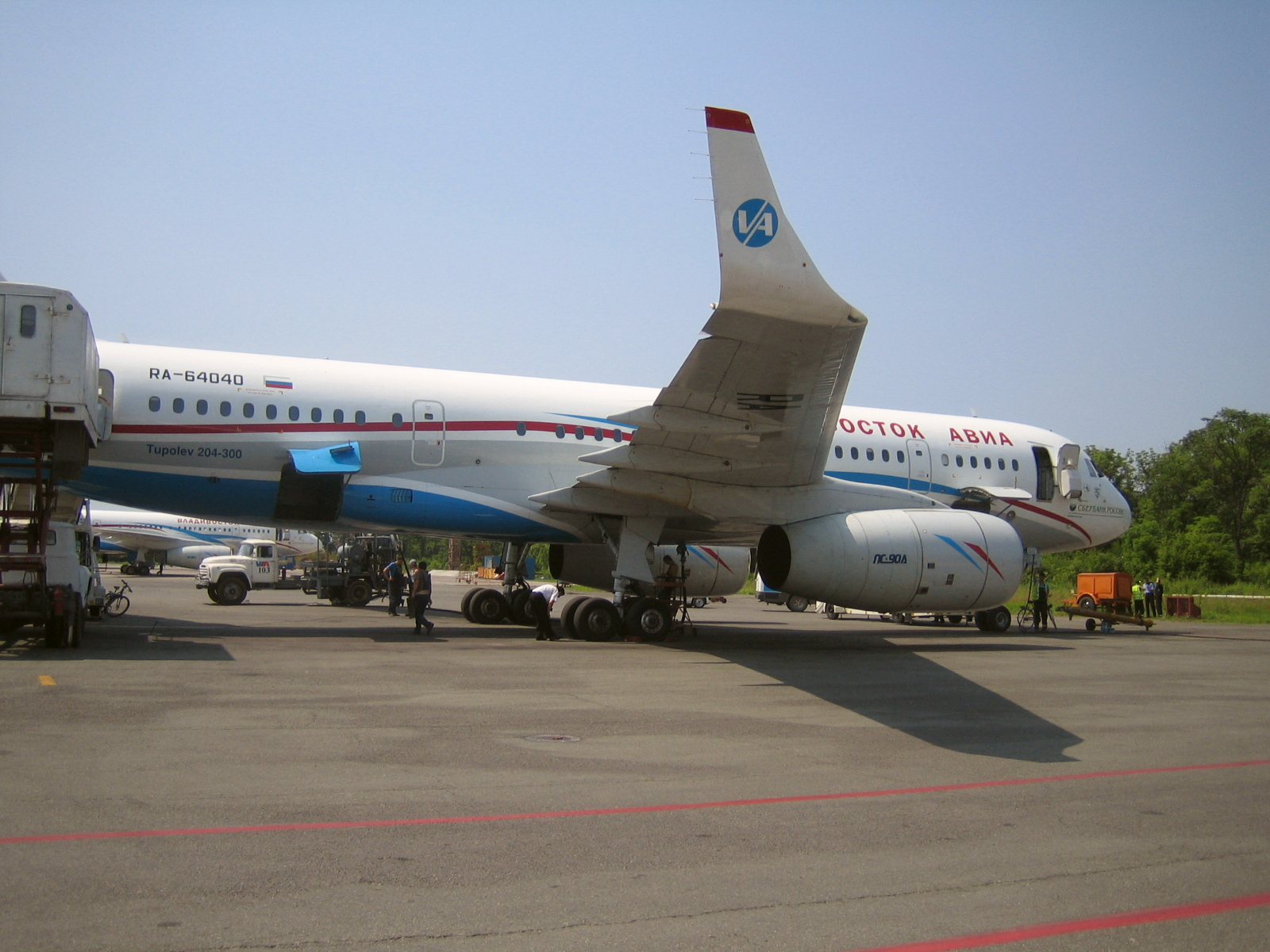 Aircraft Tupolev Tu-204-300 in Vladivostok.